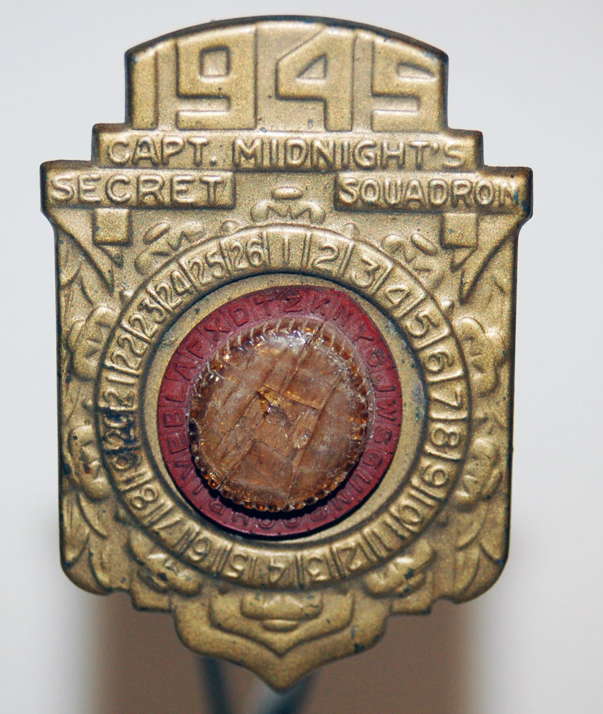 1945 radio premium: Captain Midnight decoder badge